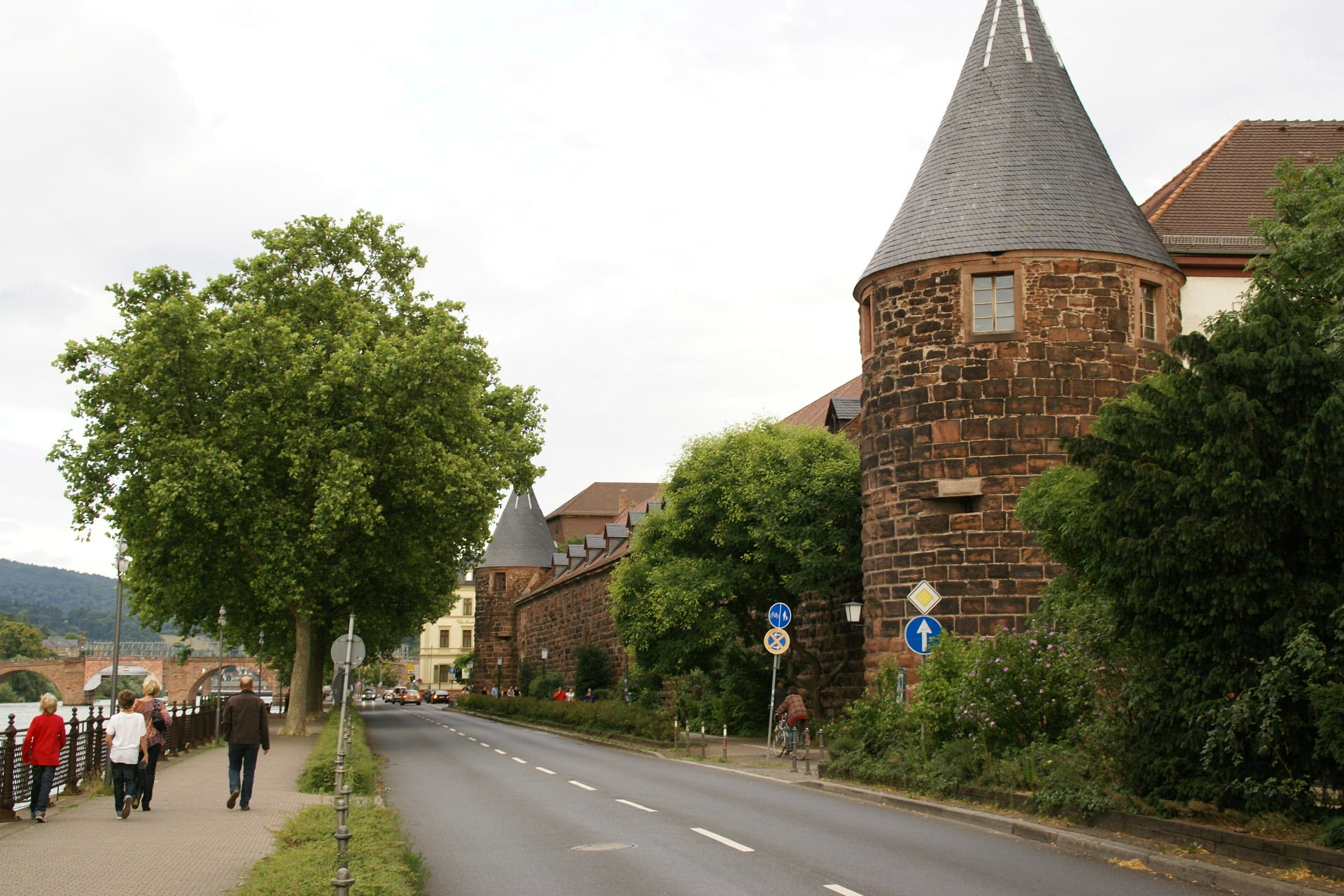 Riverfront at the Marstall (stable) at Heidelberg University, Germany